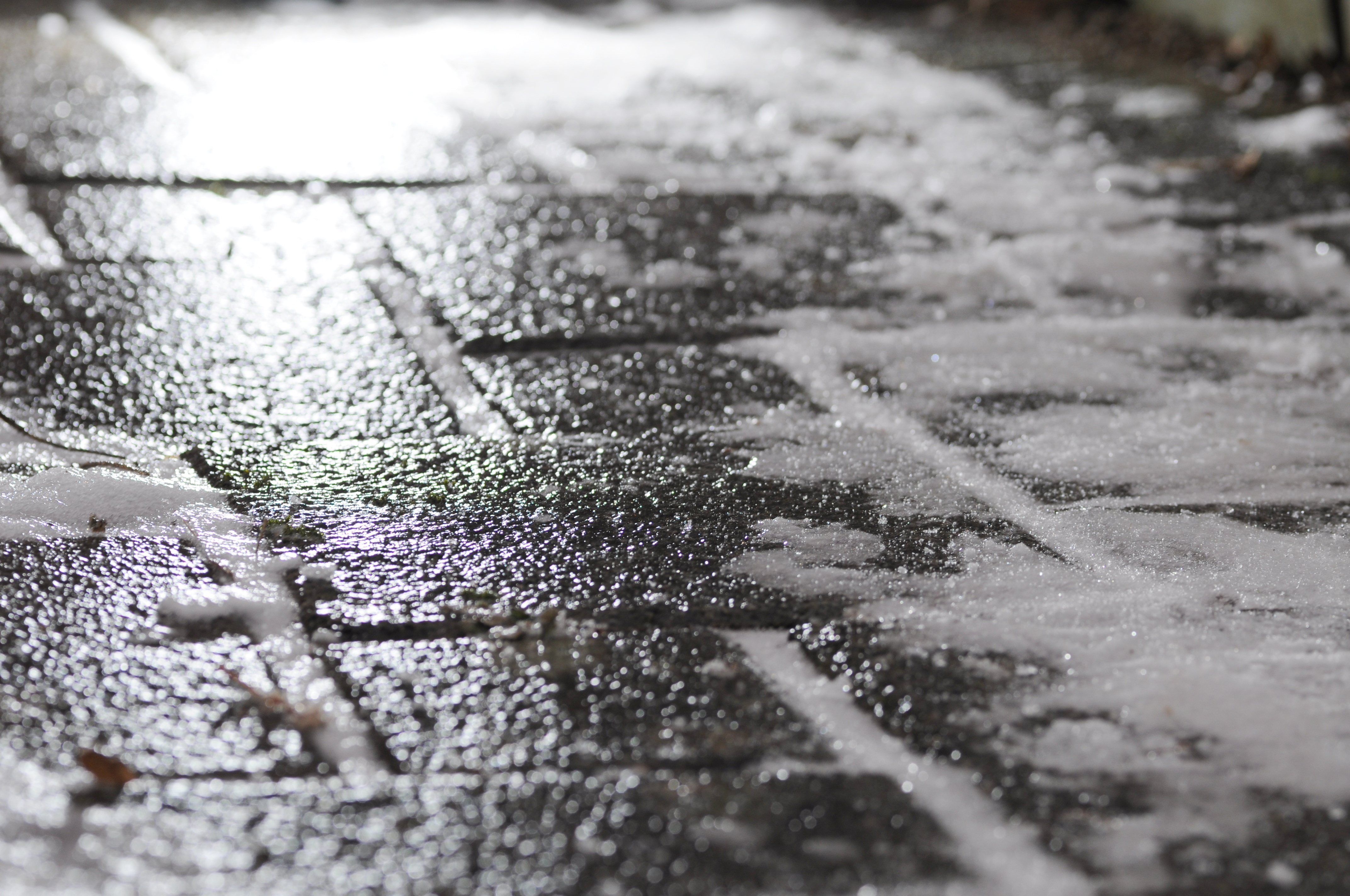 Black ice on footway